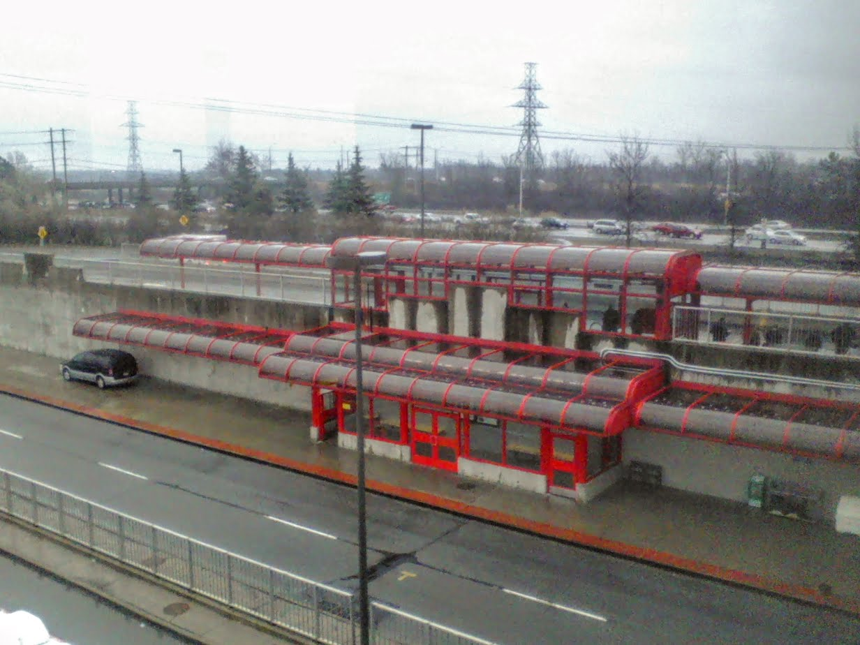 OCTranspo Blair Station - Local & Transitway Corridors - East side